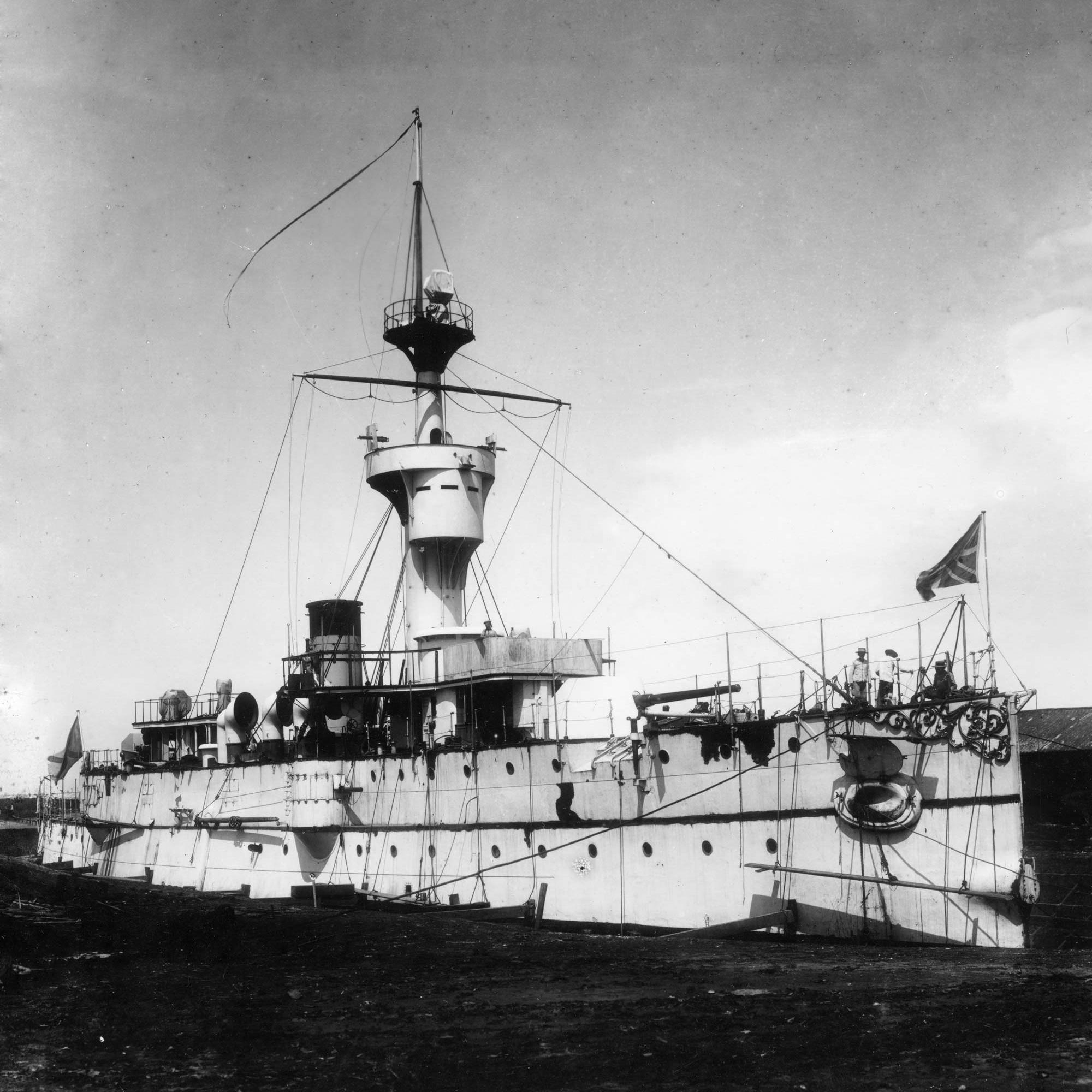 The Imperial Russian gunboat «Gilyak».